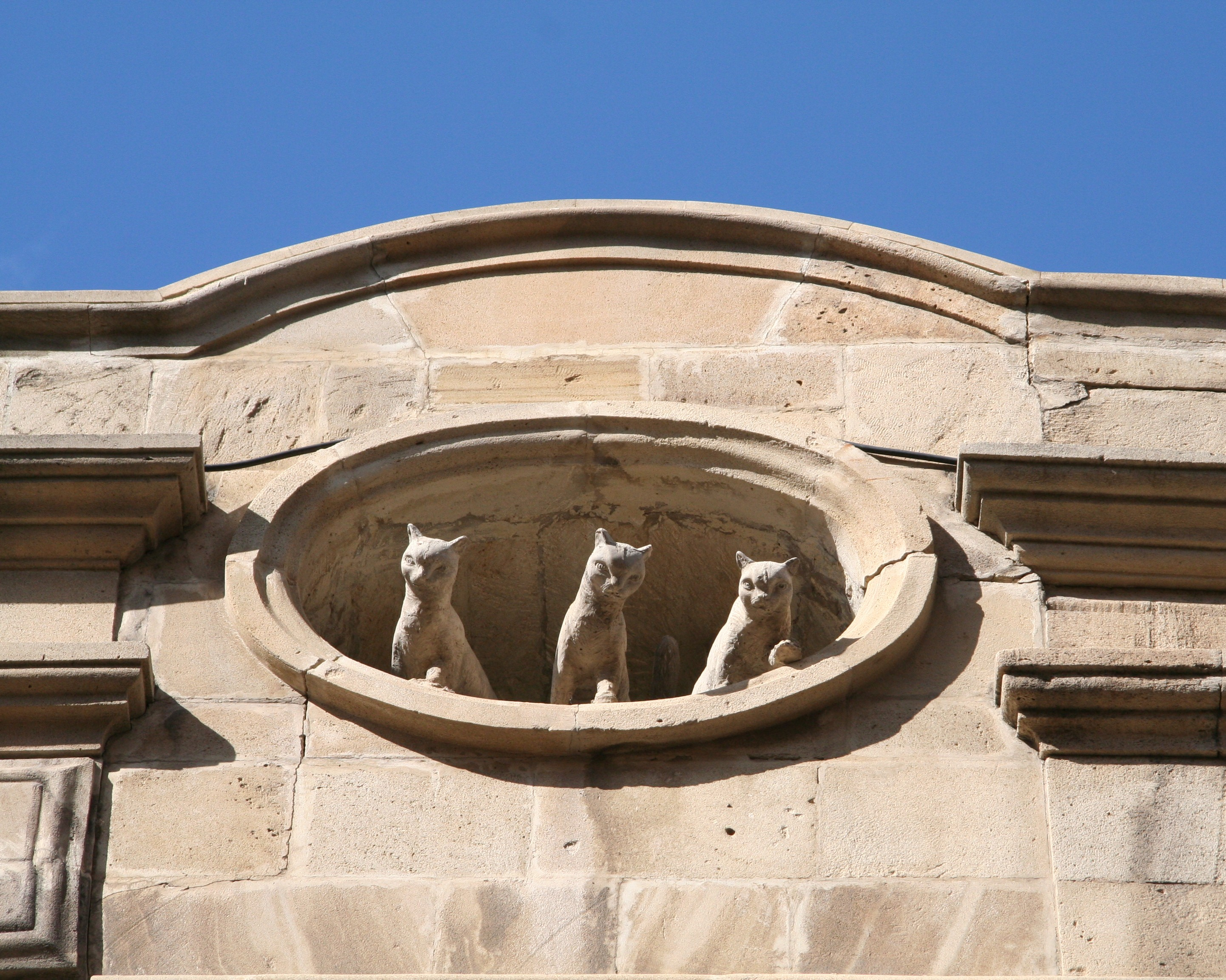 "Cat statues" on the building on Tower Street 19. Old City of Baku.